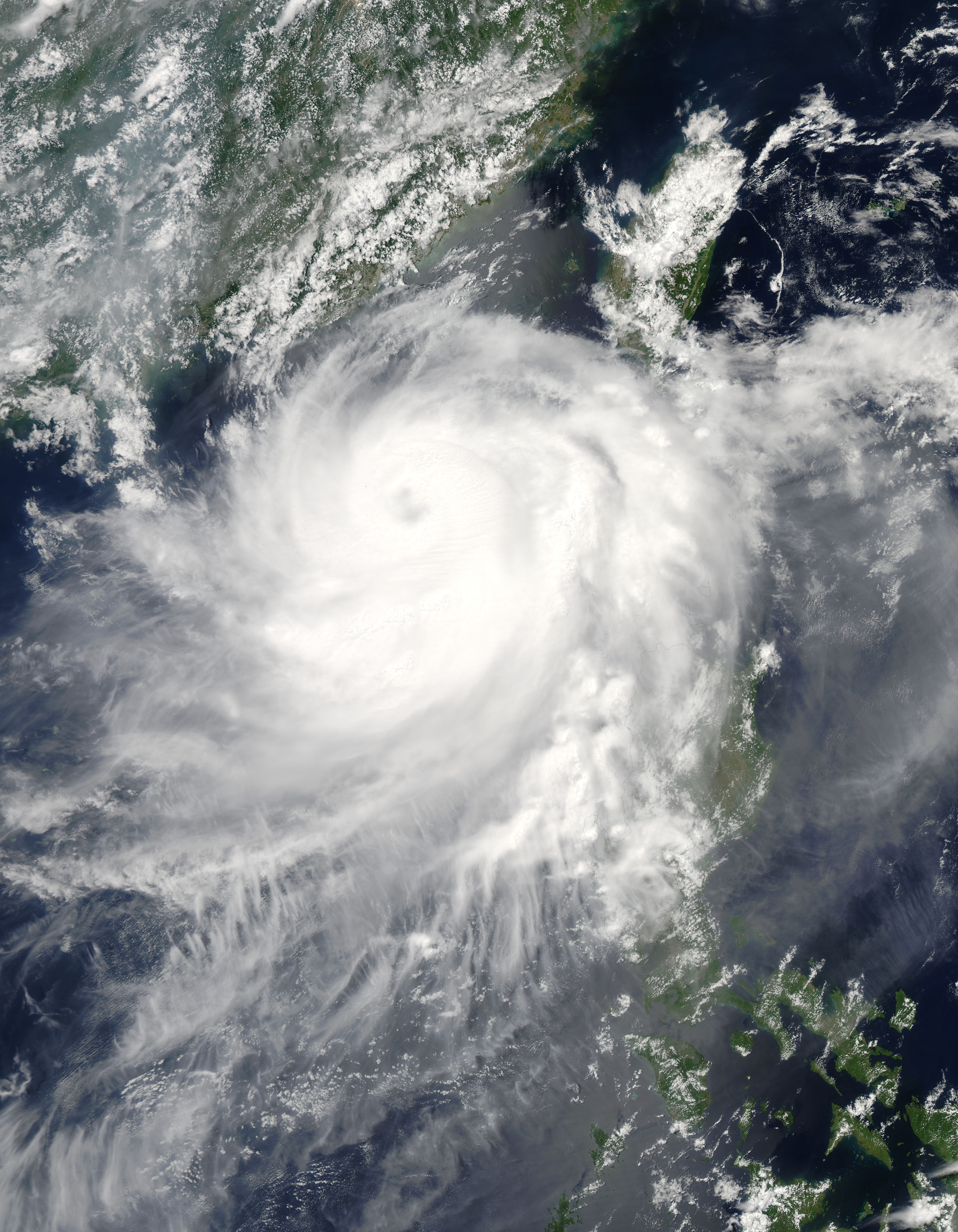 Typhoon Linfa being declared as a Category 1 Typhoon.